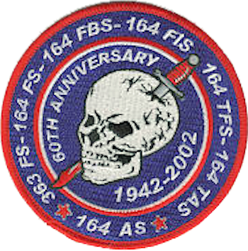 164th Airlift Squadron 60th Anniversary patch.